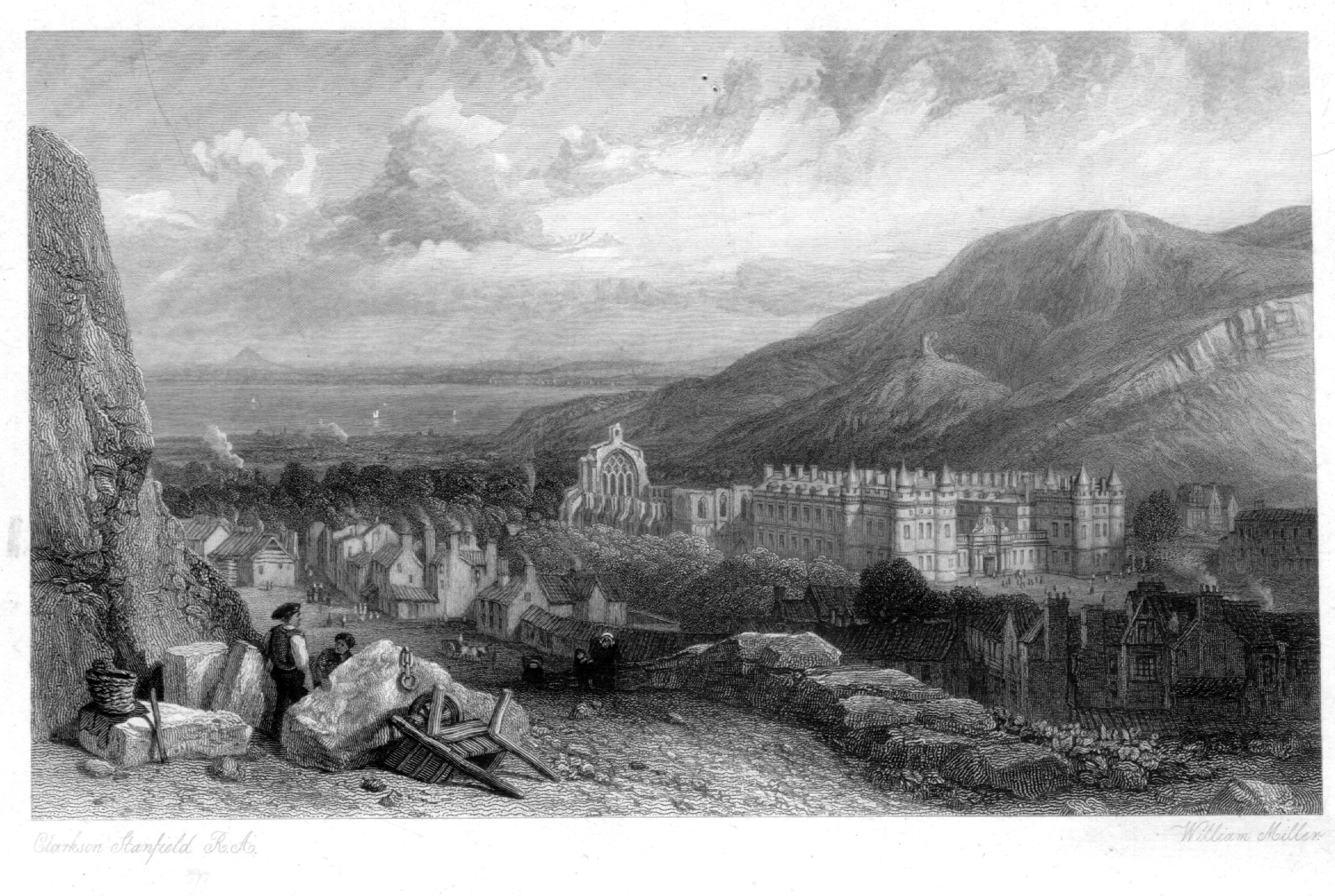 Holyrood House and Chapel, from Calton Hill engraving by William Miller after C Stanfield, published in Waverley Novels vol i (Abbotsford Edition). Walter Scott. Edinburgh and London: Robert Cadell, Houlston & Stoneman 1842 - 1847